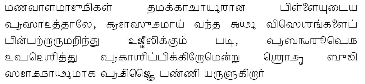 Manipravalam script used to write Sanskritised Tamil.